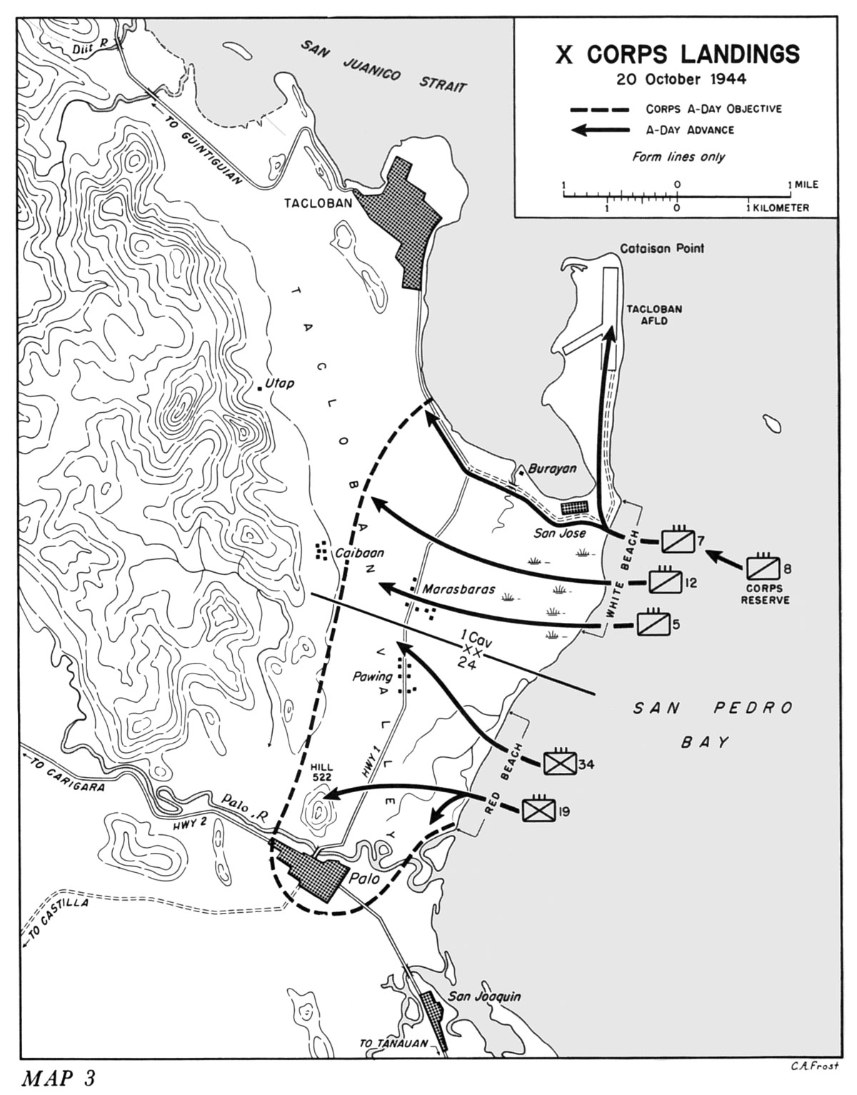 Shows location of the Leyte Northern Attack Force (X Corps) Red and White landing beaches.